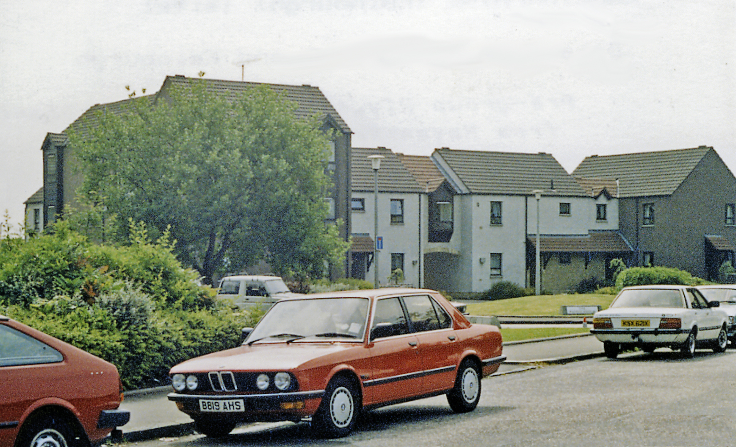 Site of Corstorphine station, 1988. View eastward, towards Edinburgh: ex-NBR terminus of the branch from Edinburgh Haymarket, which was closed in 1/68. In earlier days the short Corstorphine branch had a local passenger service which was often provided with main-line stock from expresses coming into Edinburgh Waverley from the south. By 1988 the station had been swept away, so an element of guesswork must be attached to this photograph.